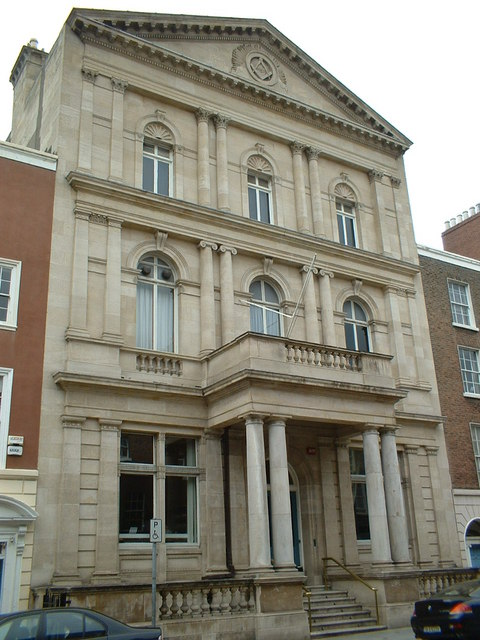 Grand Lodge of Ireland Headquarters of Irish Freemasonry (Molesworth Street)